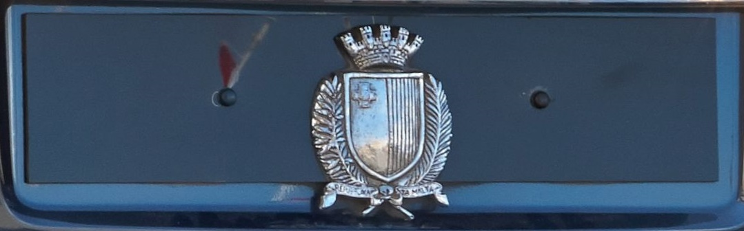 license plate of the head of state of Malta